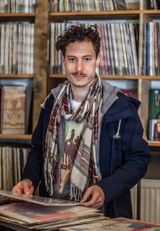 Stefan Rusconi in front of his LP collection